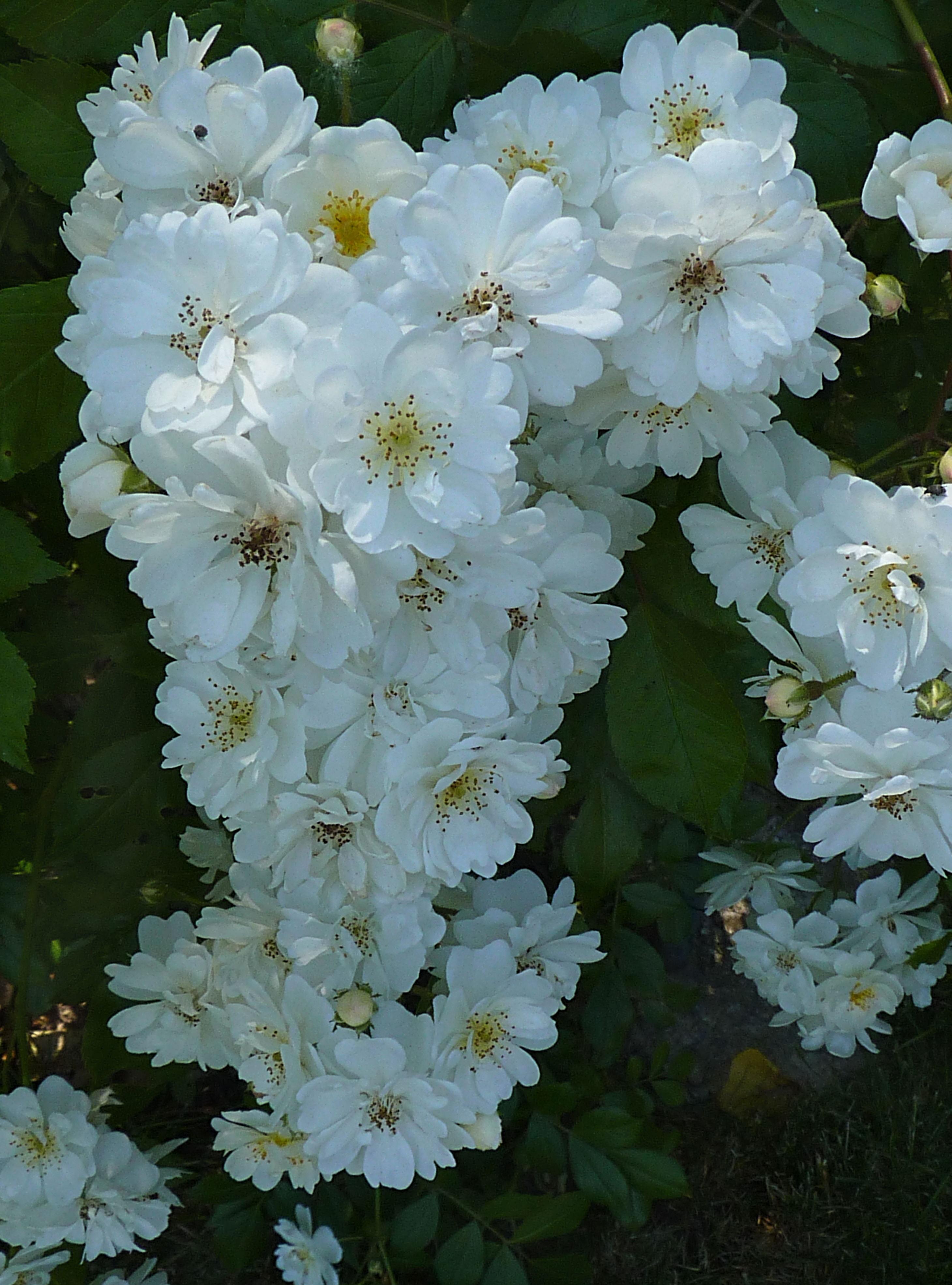 Rosa 'Guirlande d'amour' (Louis Lens, 1993), in a garden in Belgium.